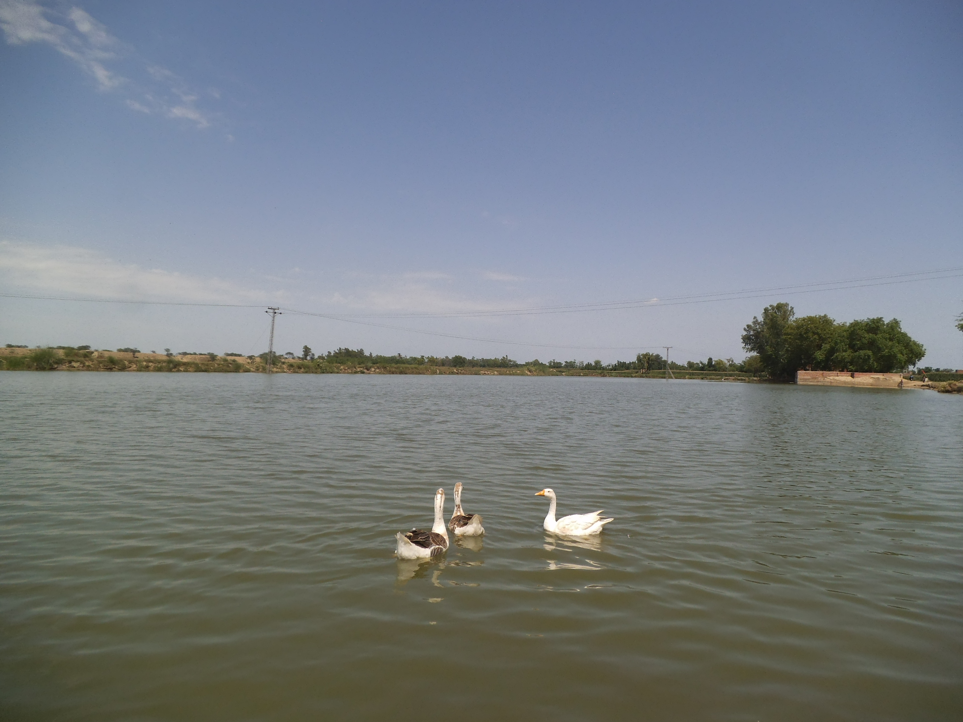 Water Reservoir in Kasur